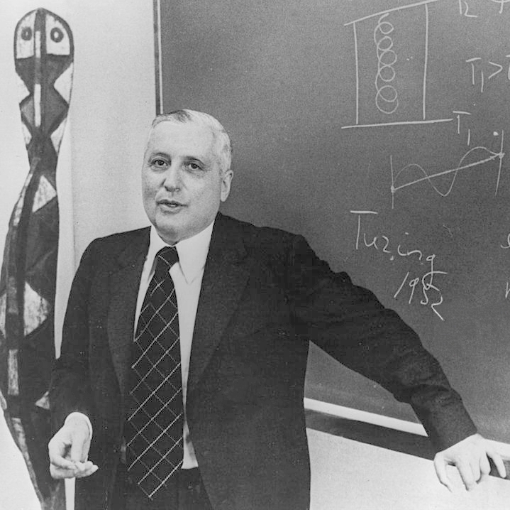 1977 Press Photo Professor Ilya Prigogine Of Belgium ,Nobel Prize For Chemistry